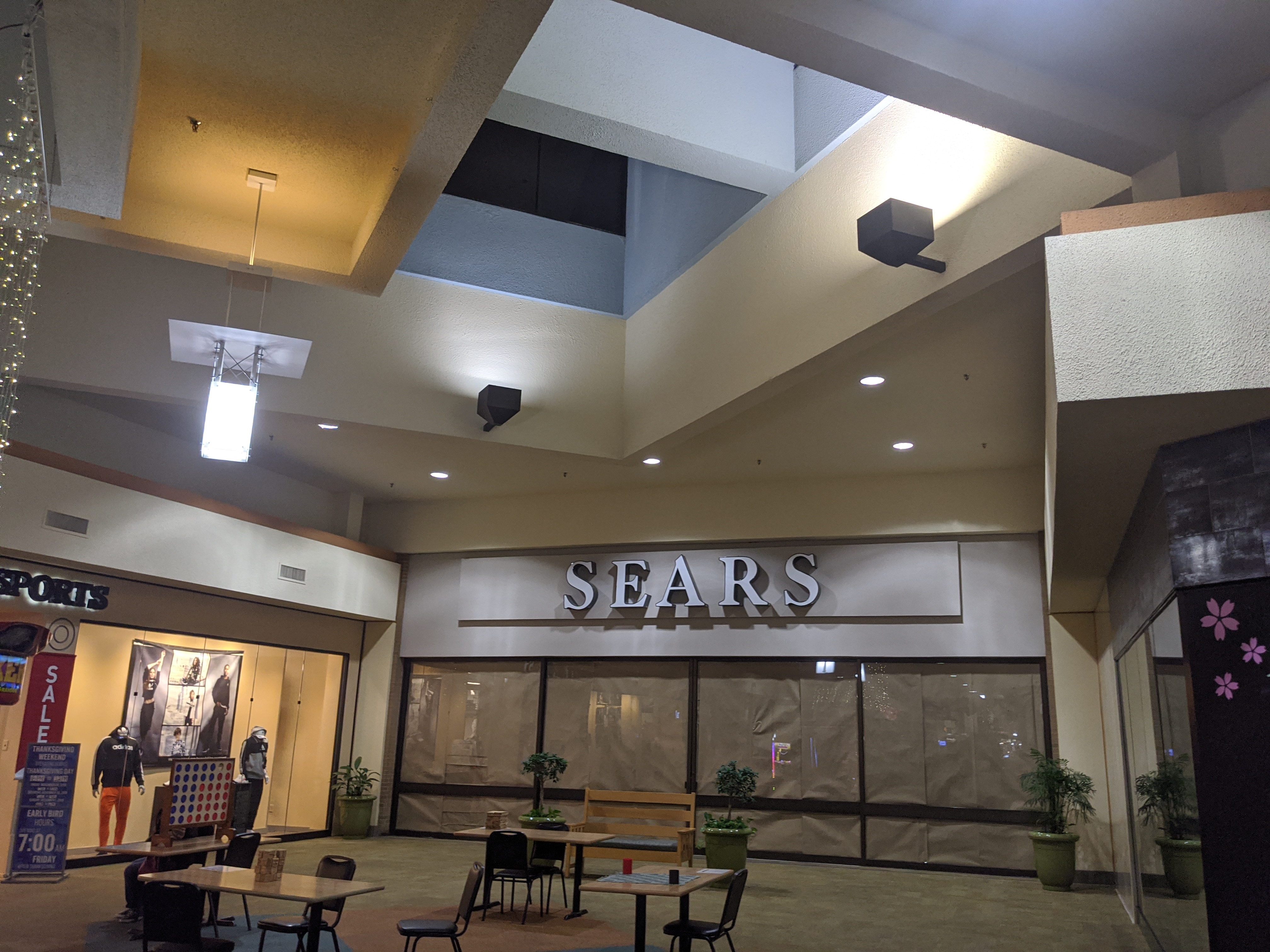 Classic Sears